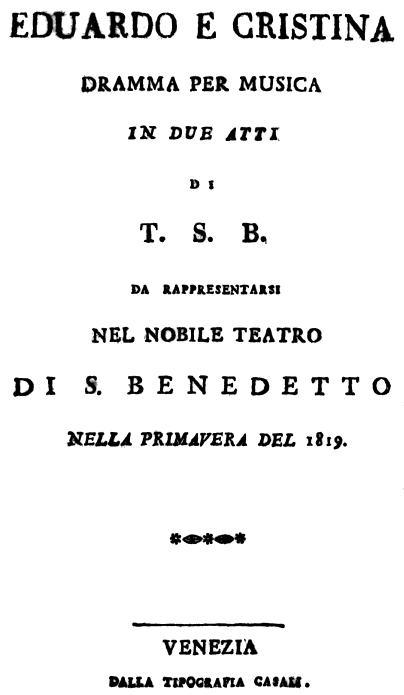 Gioachino Rossini - Eduardo e Cristina - titlepage of the libretto - venice 1819